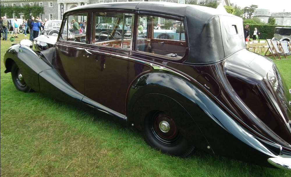 Rolls-Royce Phantom IV Hooper State Landaulette 1954Straight-Eight 5,675 cc engine Cartier `Style et Luxe` celebration of Her Majesty Queen Elizabeth`s vehicles - Goodwood Festival of Speed 2012